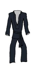 Navy Blue Cossack Top (Elvis)